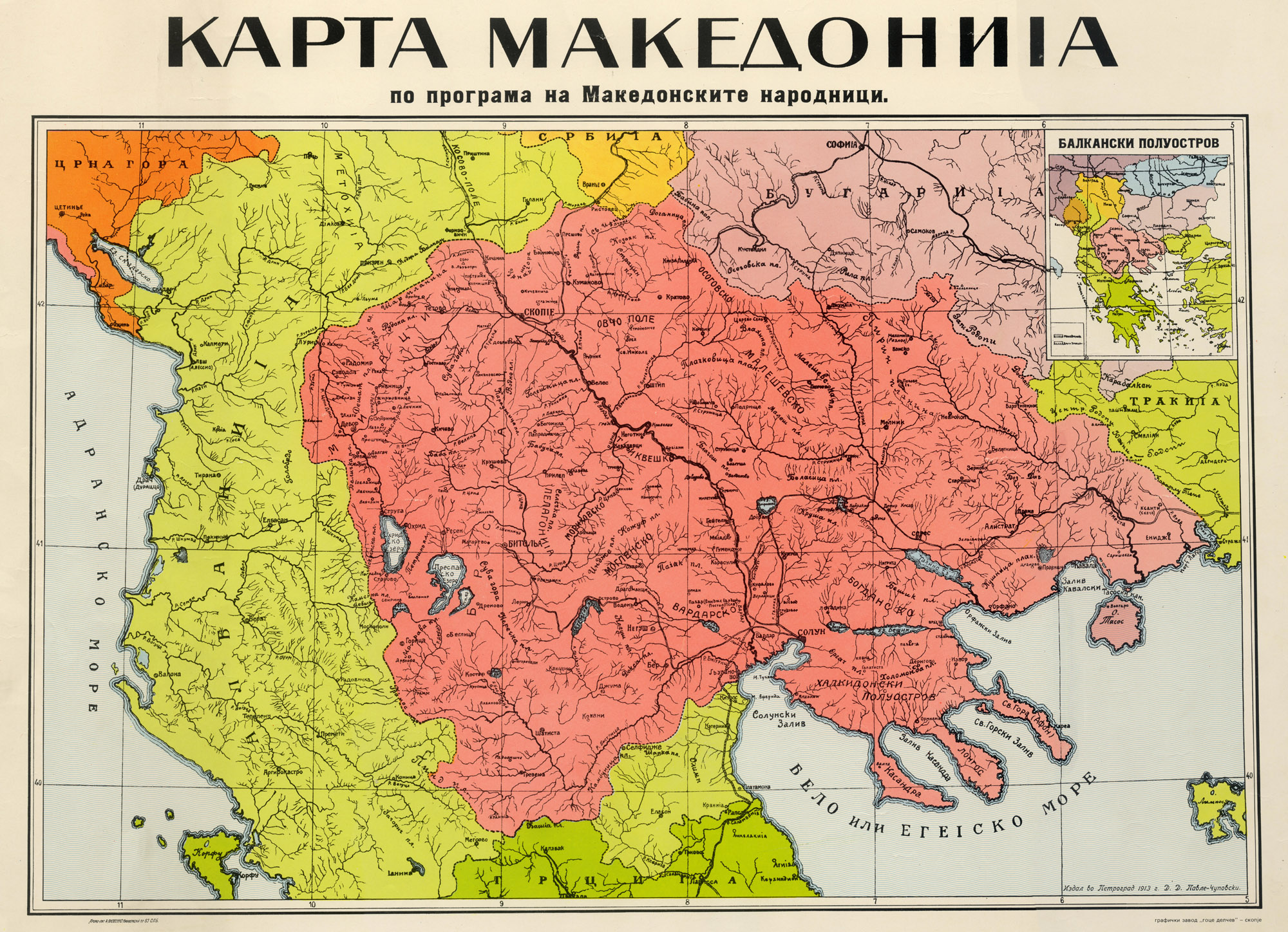 A map of Macedonia by Dimitar Chupovski, sent to the London Conference and to the supporters in Russia and Macedonia (1913) This media file is produced by Wikipedian in Residence in Category:Wikipedian in Residence at DARM in 2016.